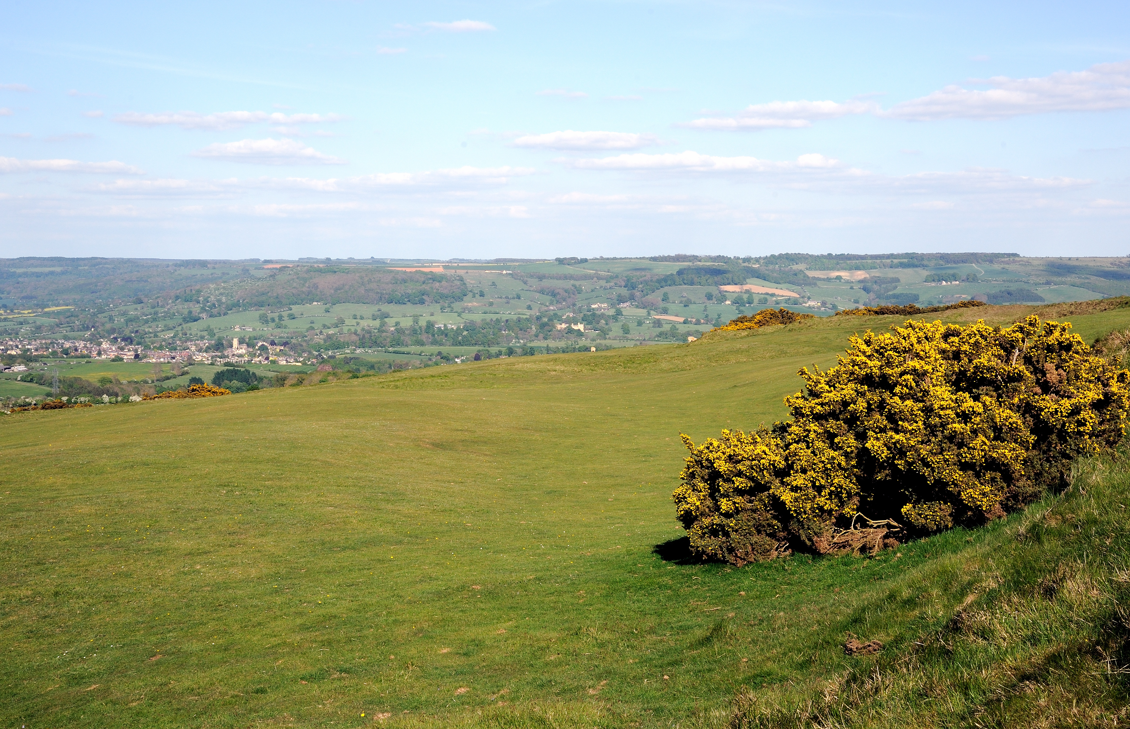 A view from Cleeve Common (near highest point in the Cotswolds). The Saxon Village of Winchcombe is visible as is Sudeley Castle. Particularly evident is the scenery that led to this area being designated "An Area of Outstanding Beauty".